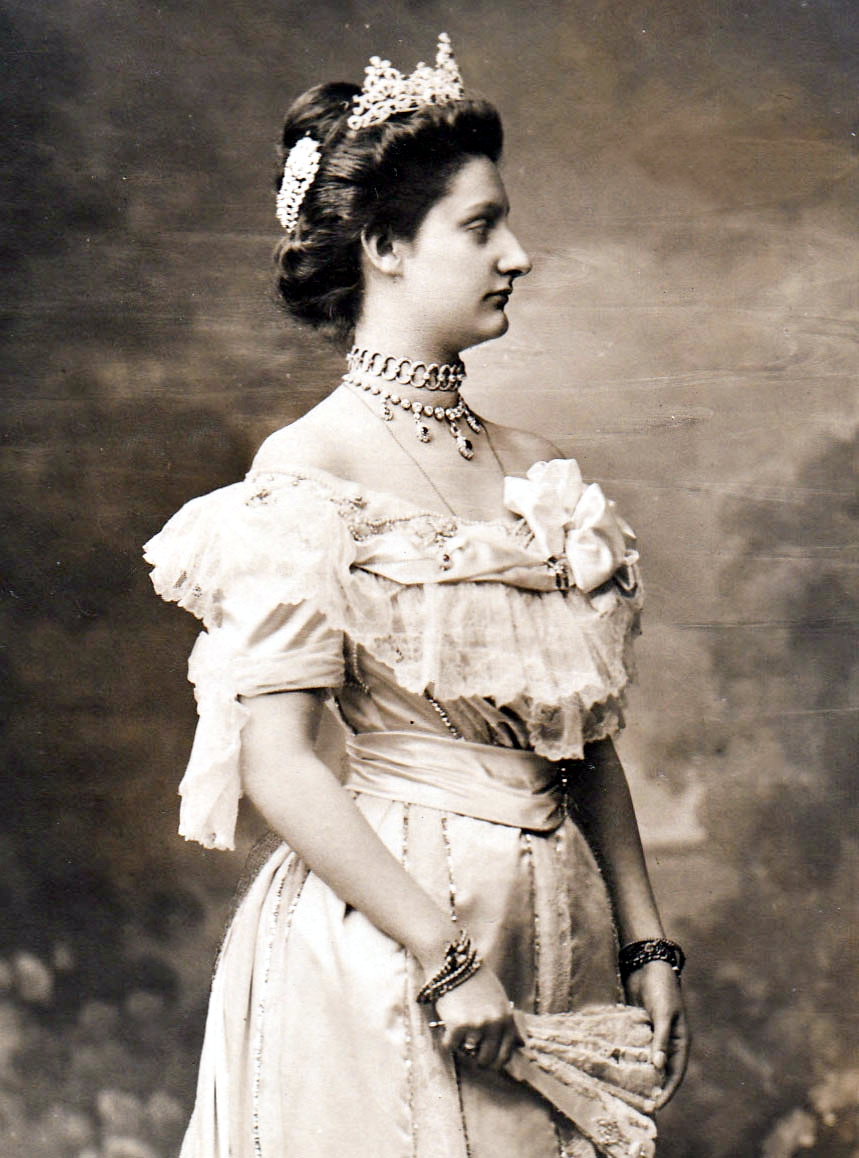 Archduchess Maria Immakulata of Austria